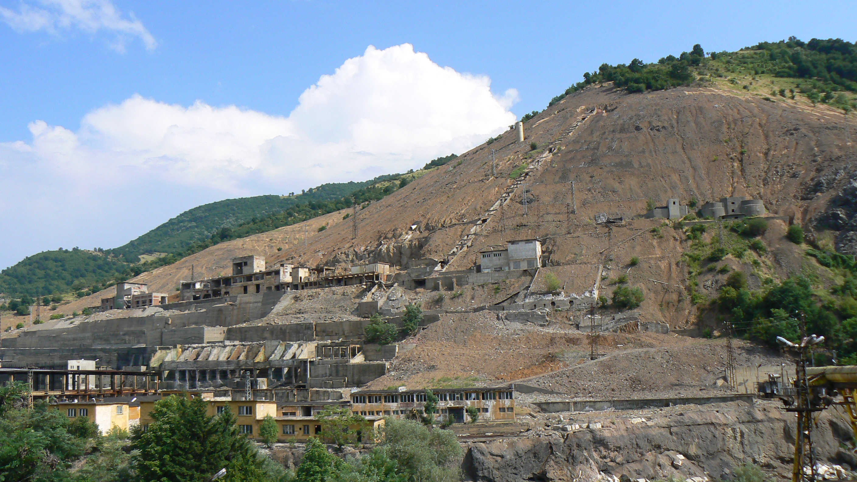 The copper mining metallurgical factory near village Eliseyna, Bulgaria, on one of the slopes of the Iskar gorge.